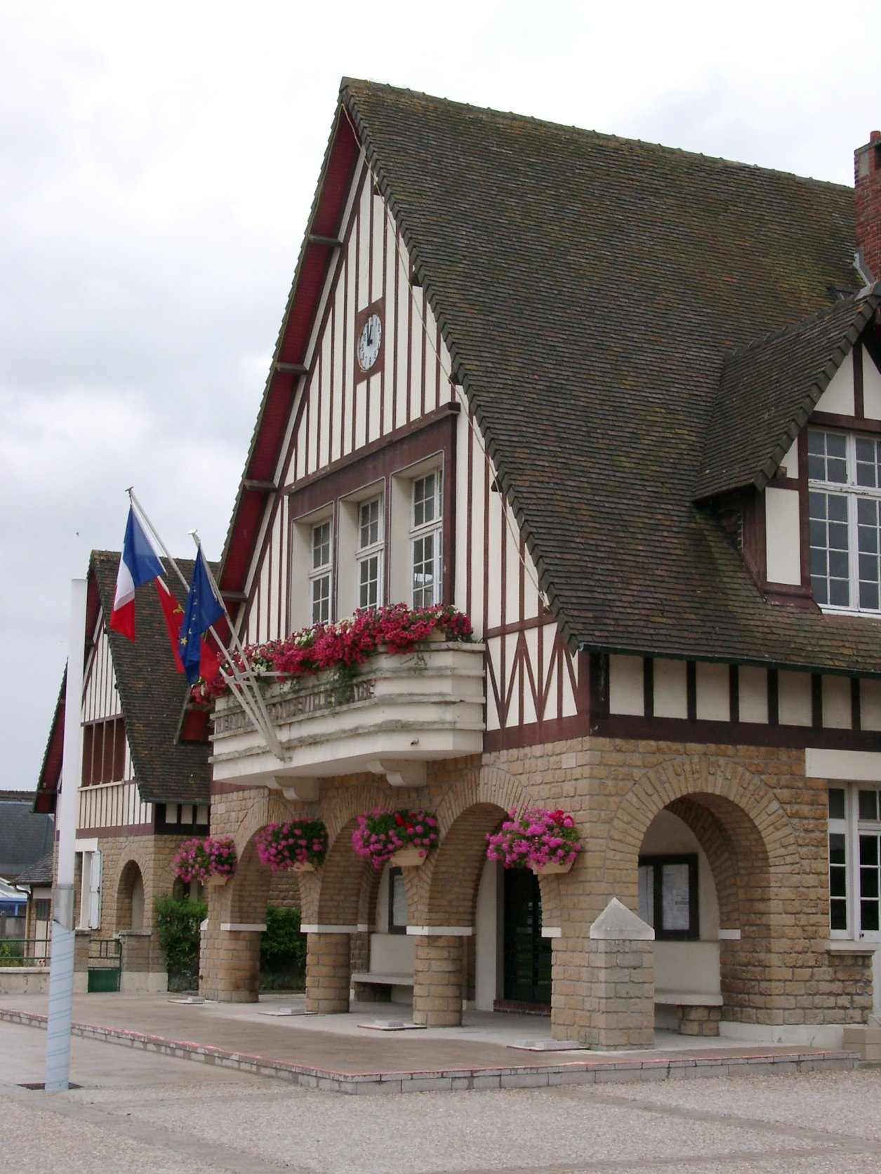 Town hall of Merville-Franceville (France).